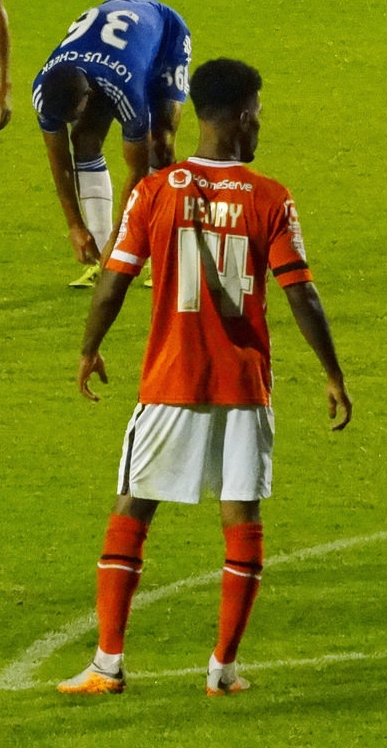 Rico Henry, Walsall FC footballer, Bescot Stadium, September 2015.